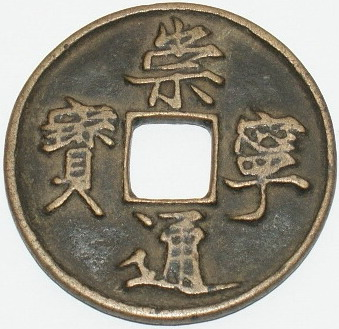 Coin of Chong Ning Tongbao, dated 1102-1106 during Northern Song. The calligraphy is "Slender Gold style" of Emperor Huizong of Song.